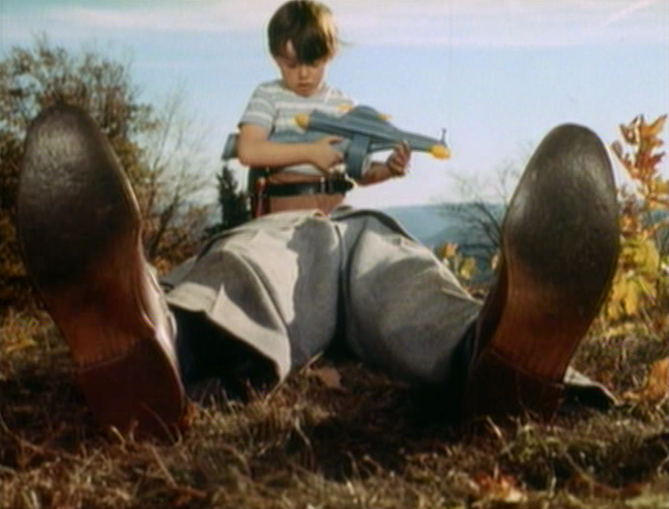 Alfred Hitchcock's "The Trouble with Harry" trailer (Jerry Mathers)